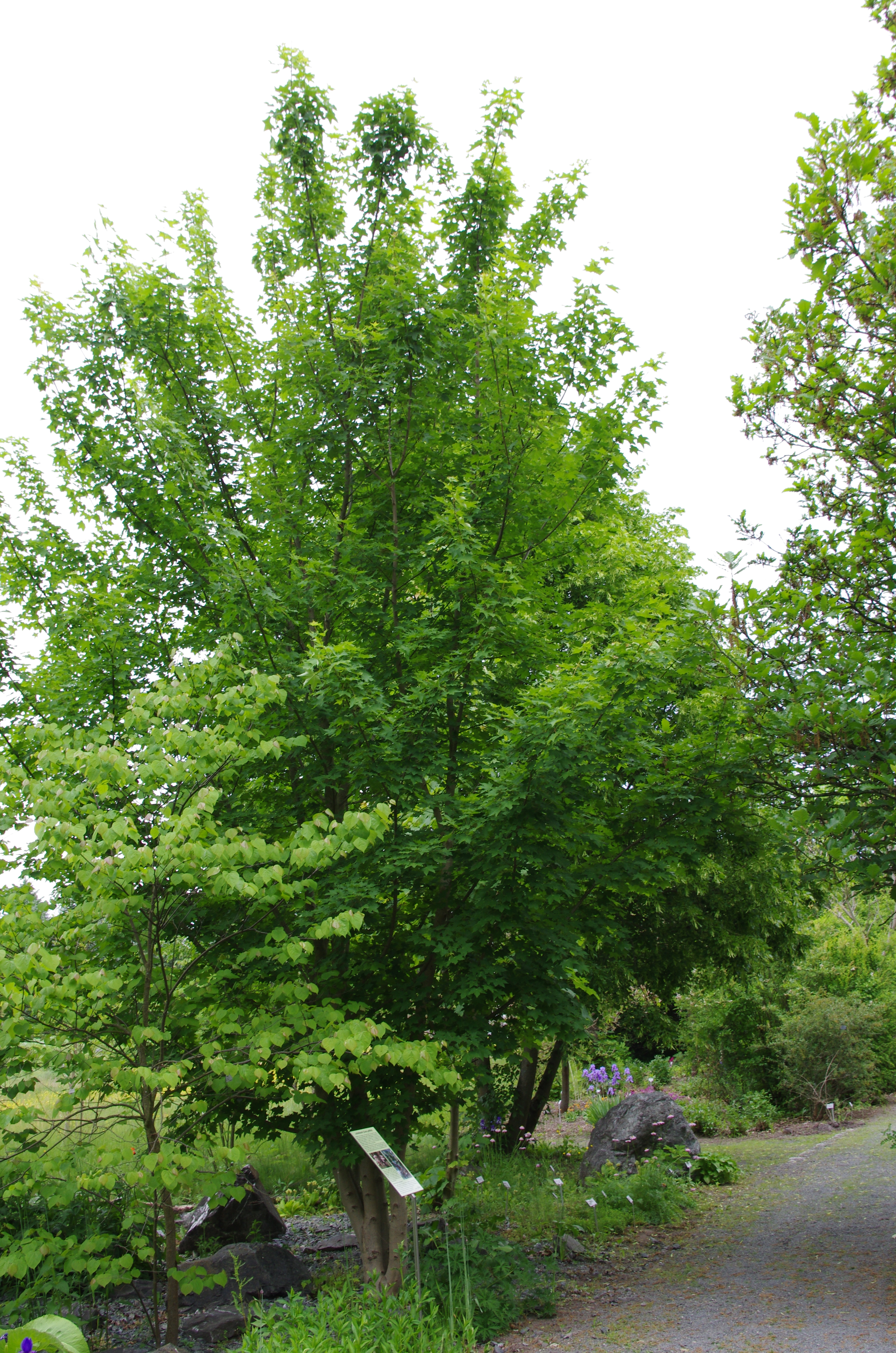 Acer cappadocicum at the ÖBG Bayreuth